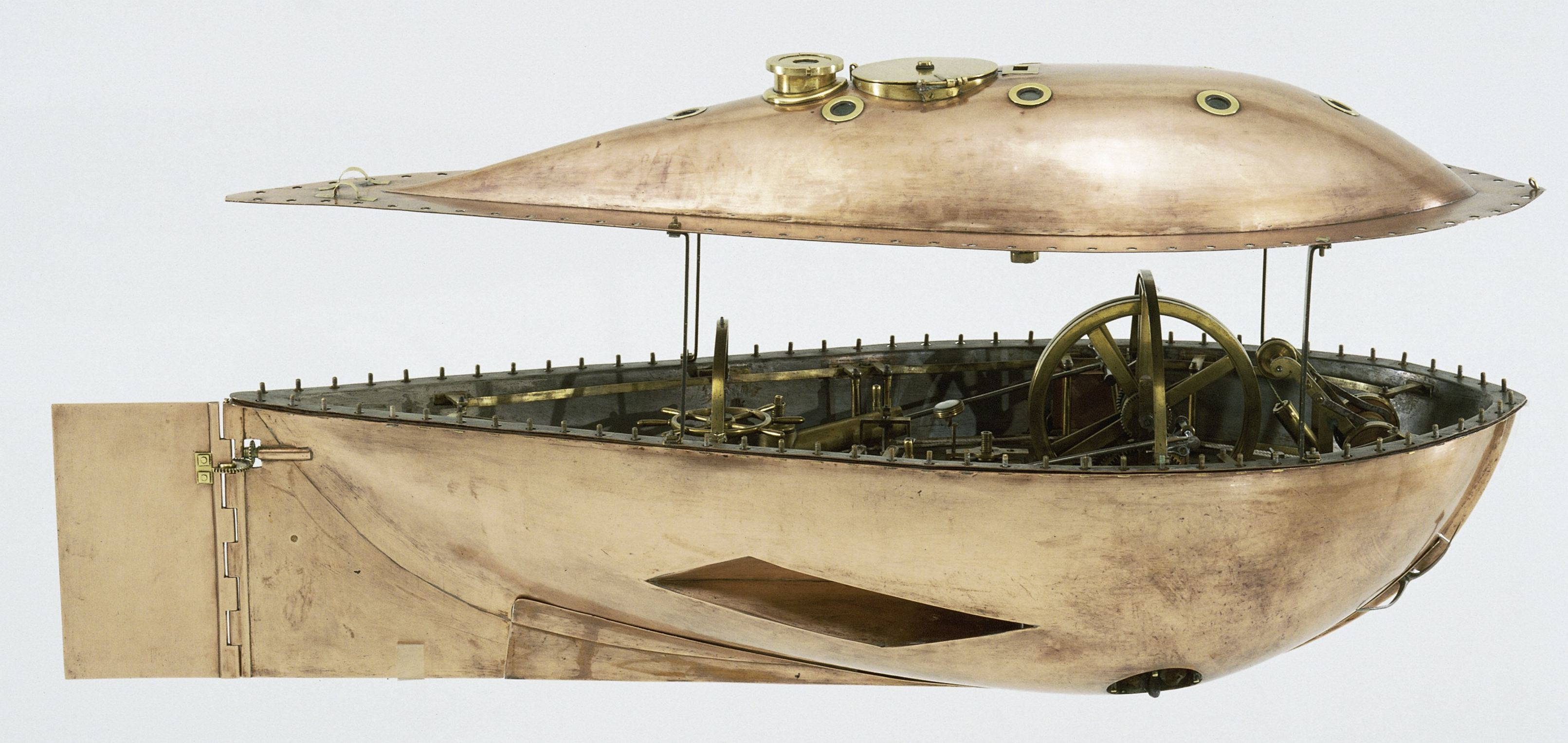 Model van een duikboot, Antoine Lipkens, Olke Uhlenbeck, 1835 - 1840